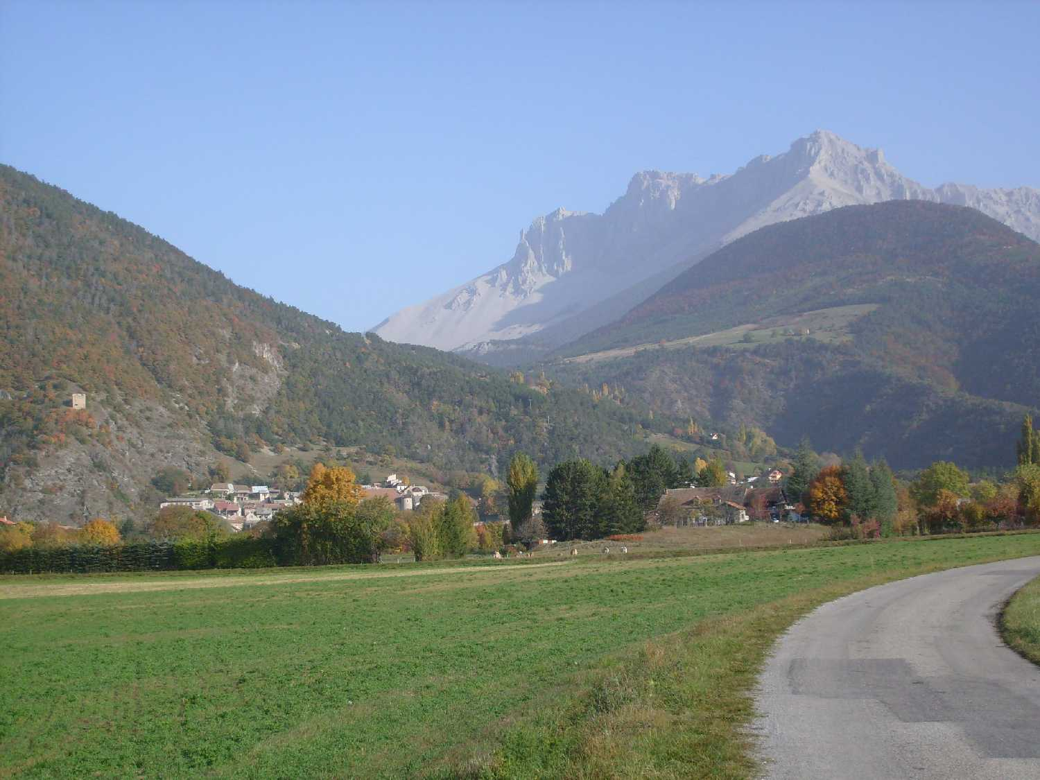 Overall view over Montmaur site (Hautes-Alpes)